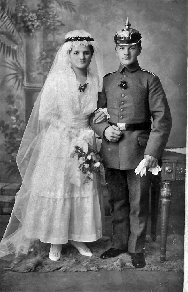 Wilhelm Mardus and Emma Hanke on their wedding day. 27 October 1917.